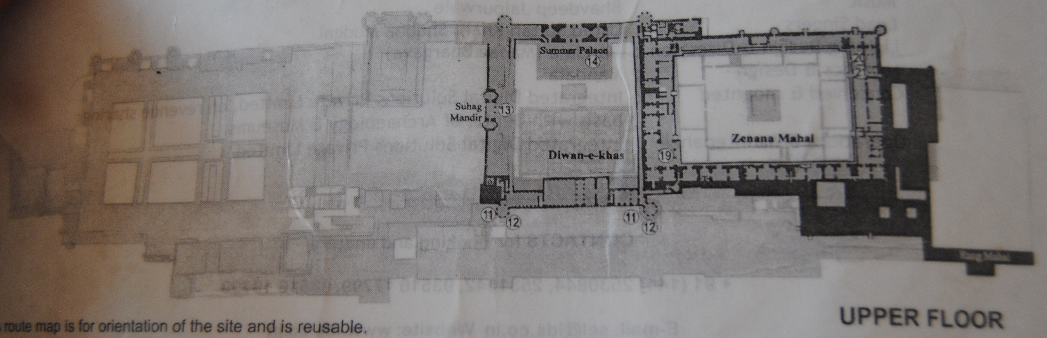 Picture taken with own camera from map on site. Heritage